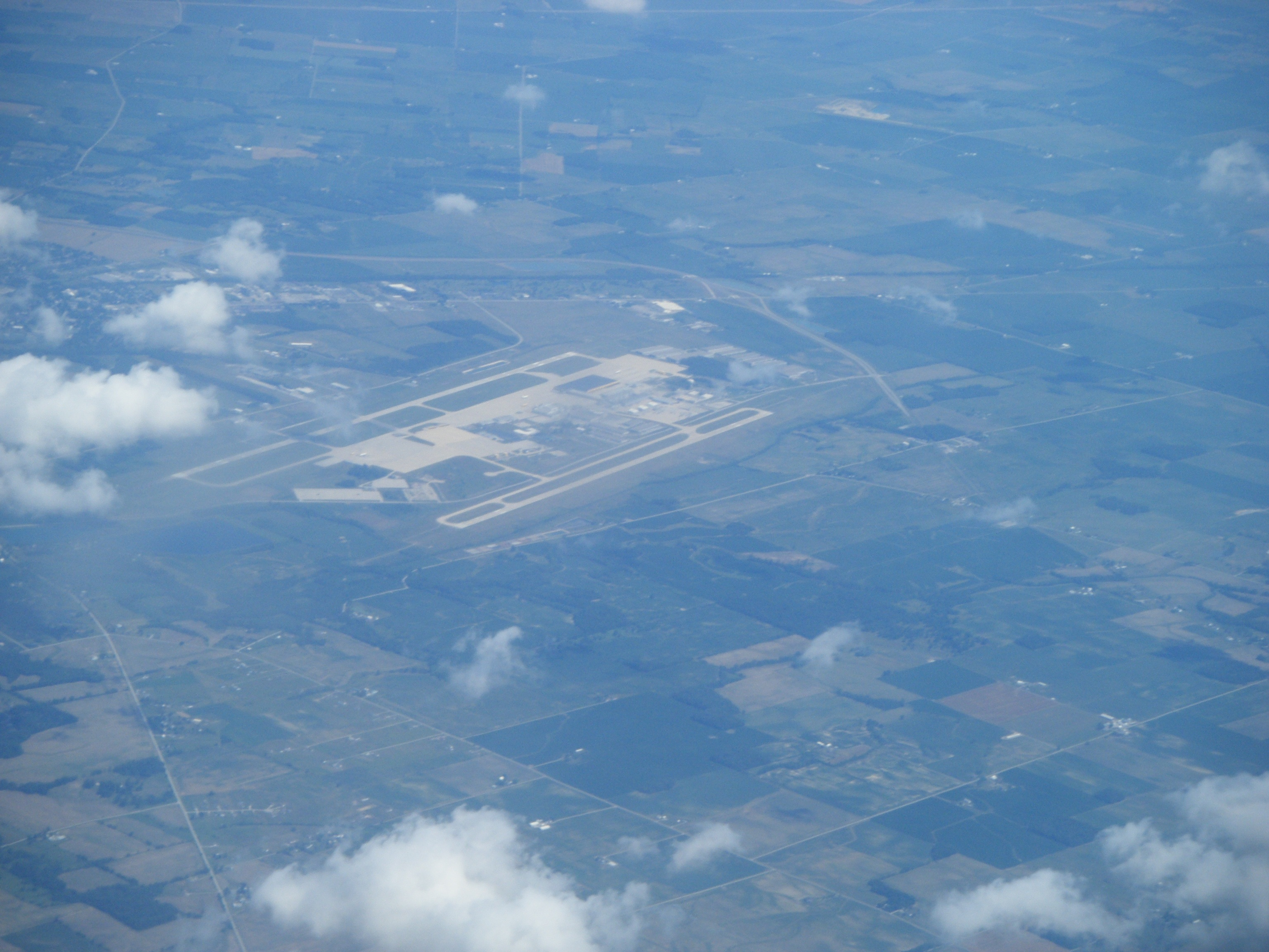 A view of Airborne Airpark in Wilmington, Ohio taken from an airplane